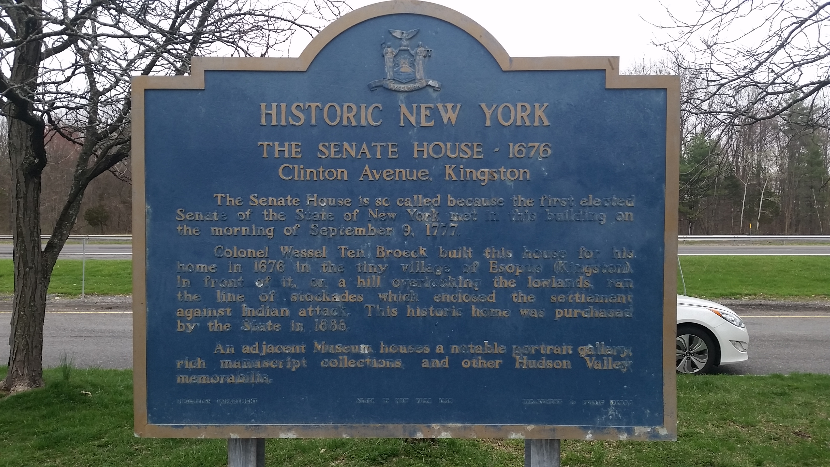 New York State historical marker for the old Senate House in Kingston, NY along Interstate 87 north of Kingston. This is one of two markers at this rest stop and it discusses the Senate House in Kingston.